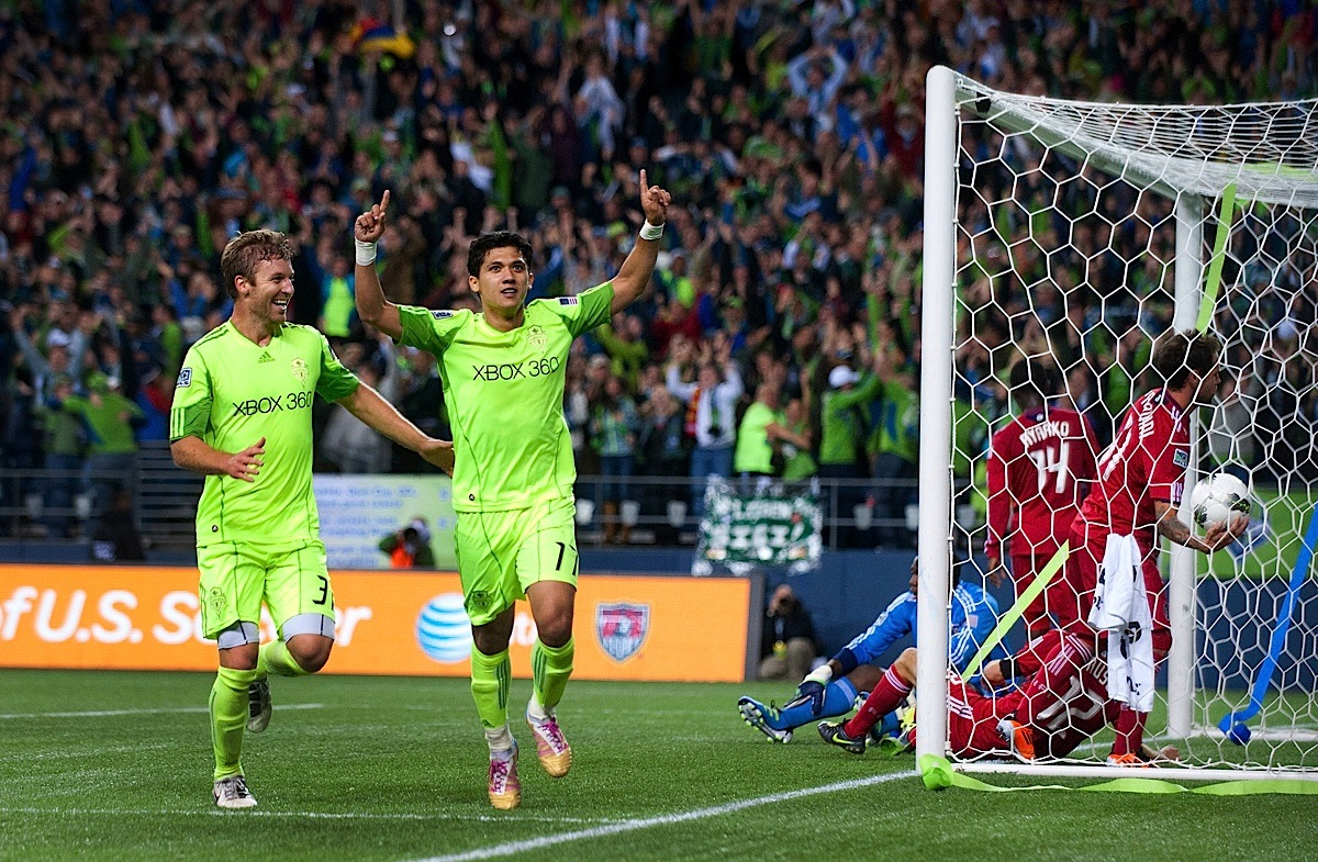 Seattle Sounders FC striker Fredy Montero celebrates after scoring the first (and game winning) goal in the second half of the 2011 Lamar Hunt U.S. Open Cup final at CenturyLink Field in Seattle, WA.